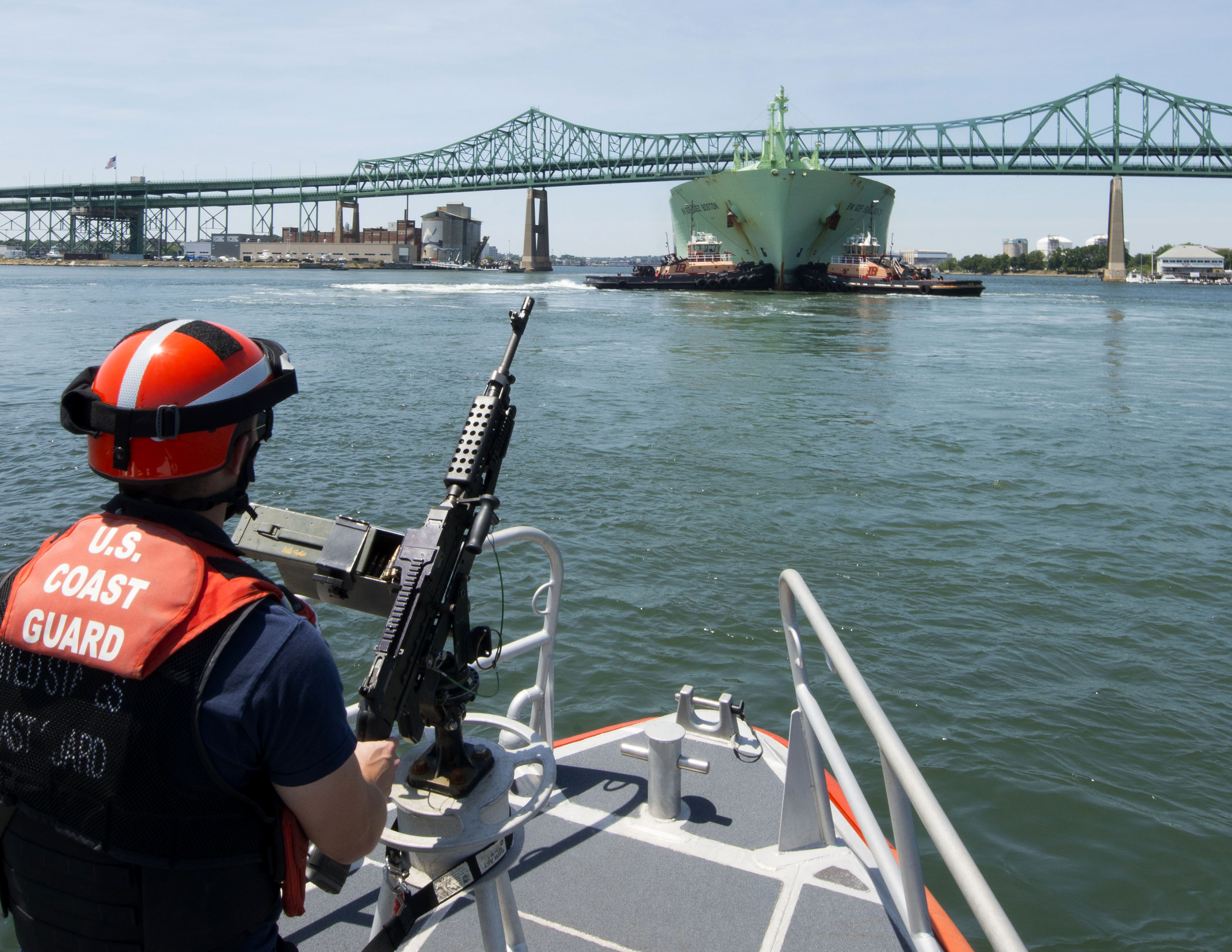 Petty Officer 3rd Class Tanner King, a crewmember of Coast Guard Station Boston, is underway aboard a 45-foot response boat during a security escort in Boston Harbor, Thursday, July 21, 2016. The station’s crew escorted the Norwegian-flagged LNG tanker BW GDF SUEZ Boston into a terminal in Boston. U.S. Coast Guard photo by Petty Officer 2nd Class Cynthia Oldham